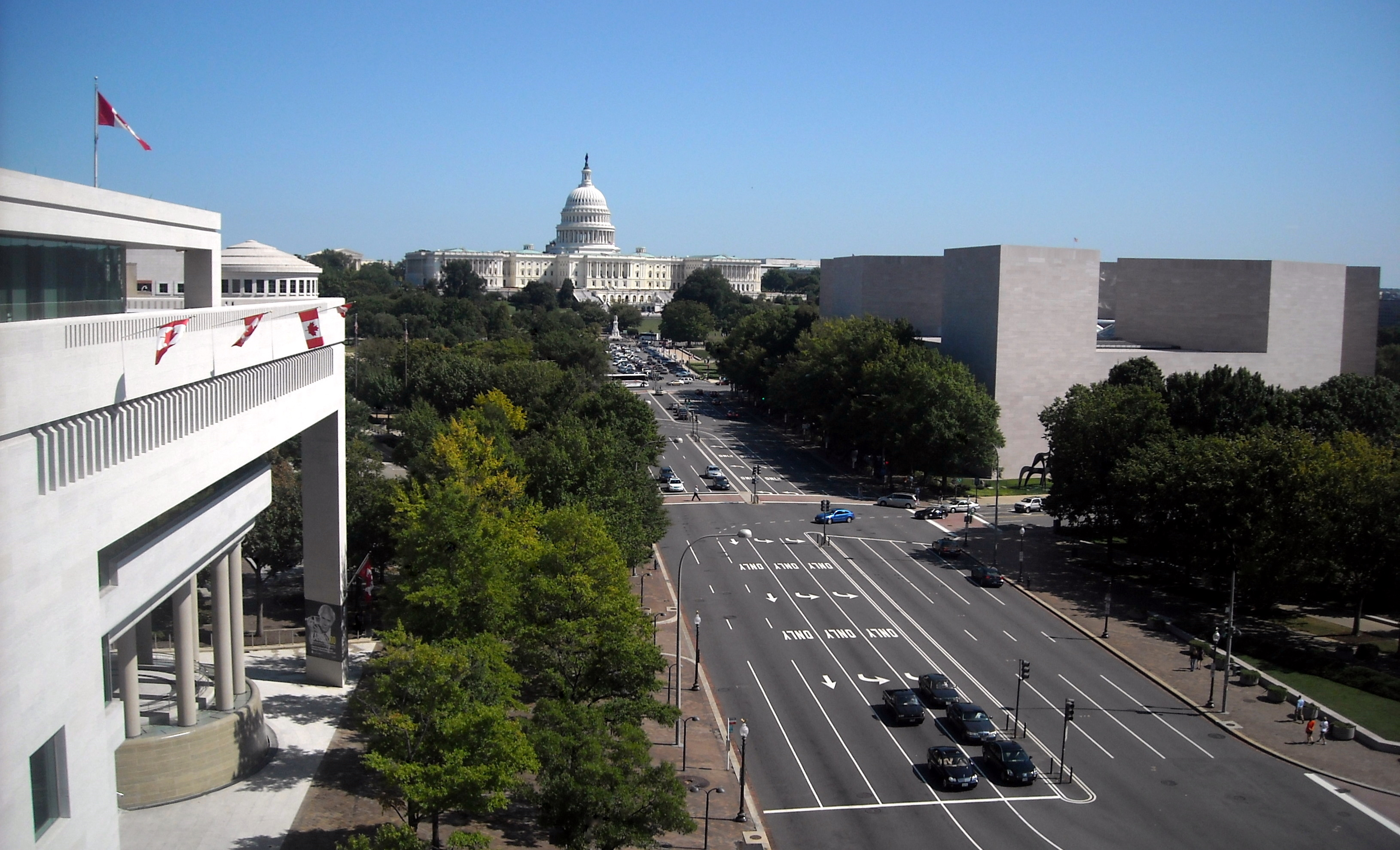 The Embassy of Canada, the United States Capitol, the East Building of the National Gallery of Art, and Pennsylvania Avenue, as viewed from the Newseum's Hank Greenspun Terrace, in Washington, D.C.